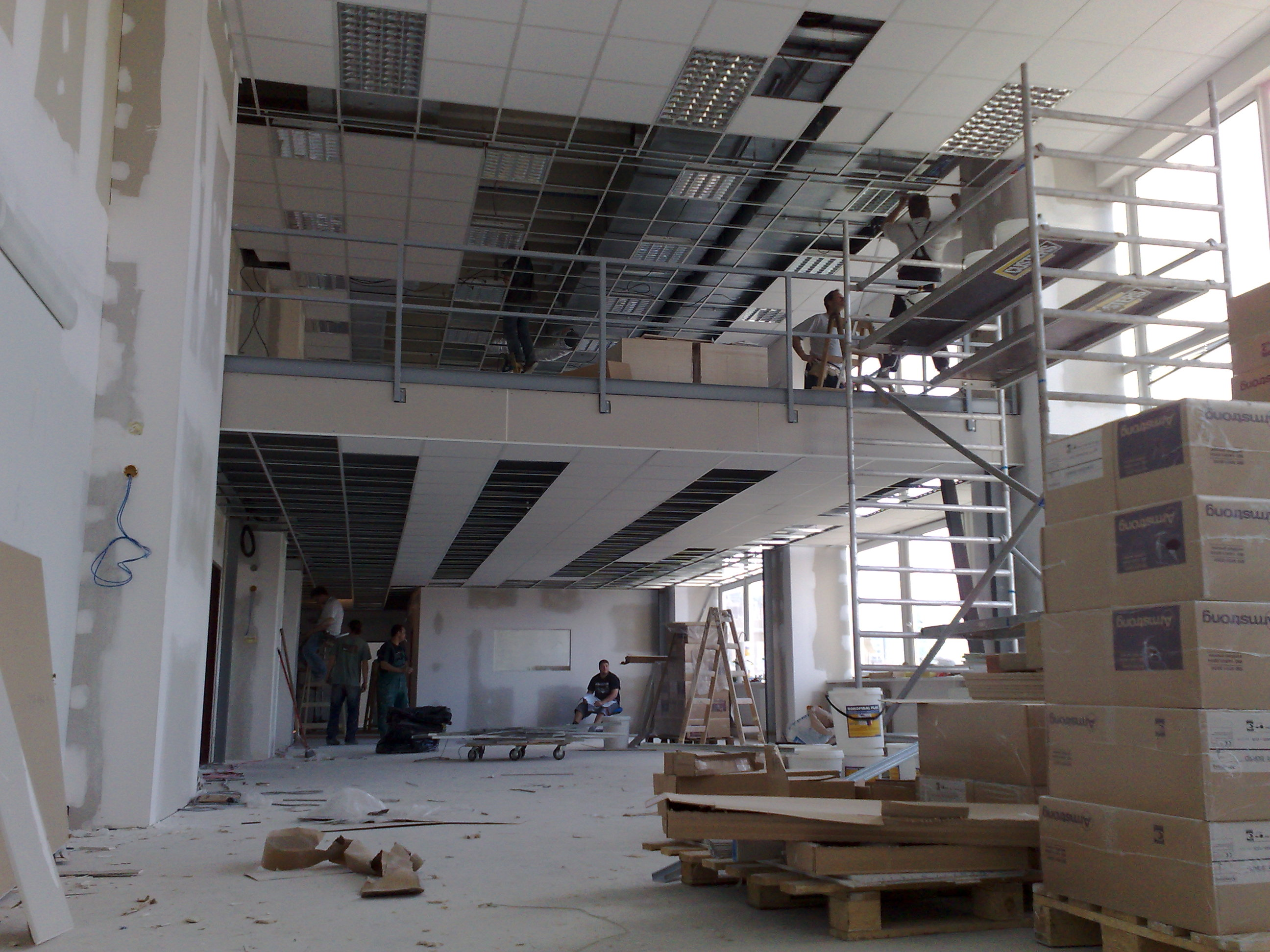 preparing of TV Nova newsroom, 2008